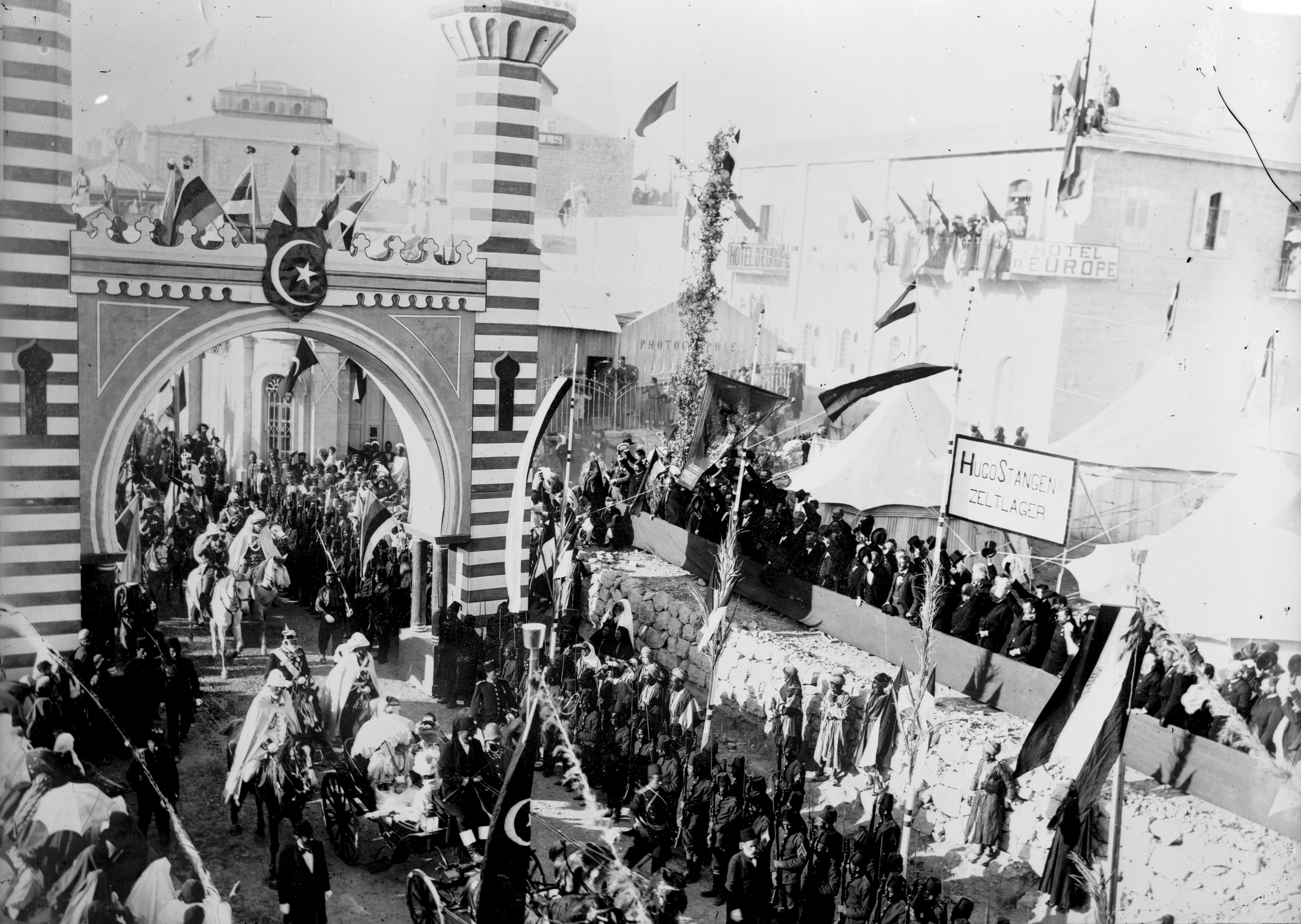 State visit to Jerusalem of Wilhelm II of Germany in 1898. Emperor passing through arch; Hotel D'Europe in background. Emperor and Empress.